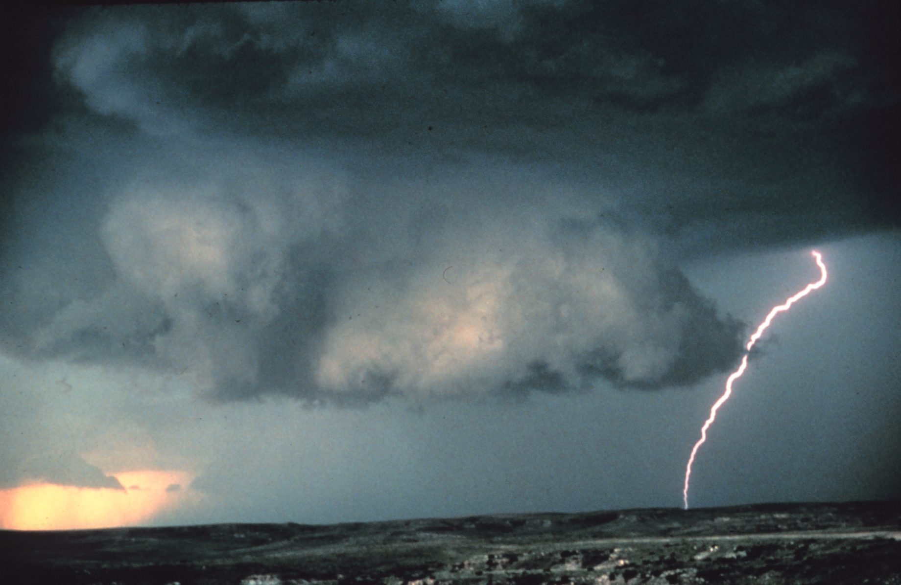 Wall cloud with lightning, Miami, Texas.